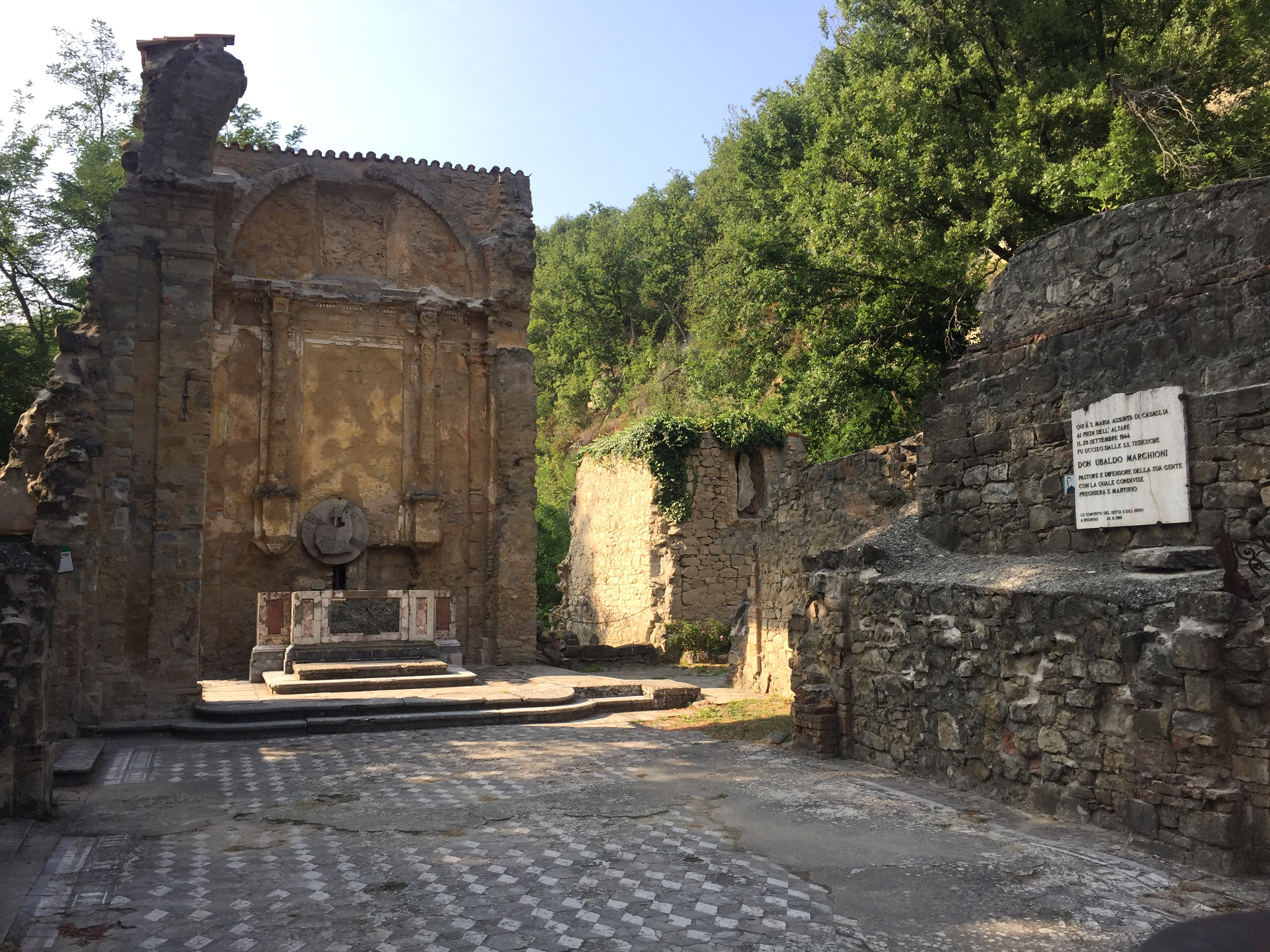 Church of S. Maria Assunta di Casaglia and memorial to Don Ubaldo Marchioni, Bologna, Italy